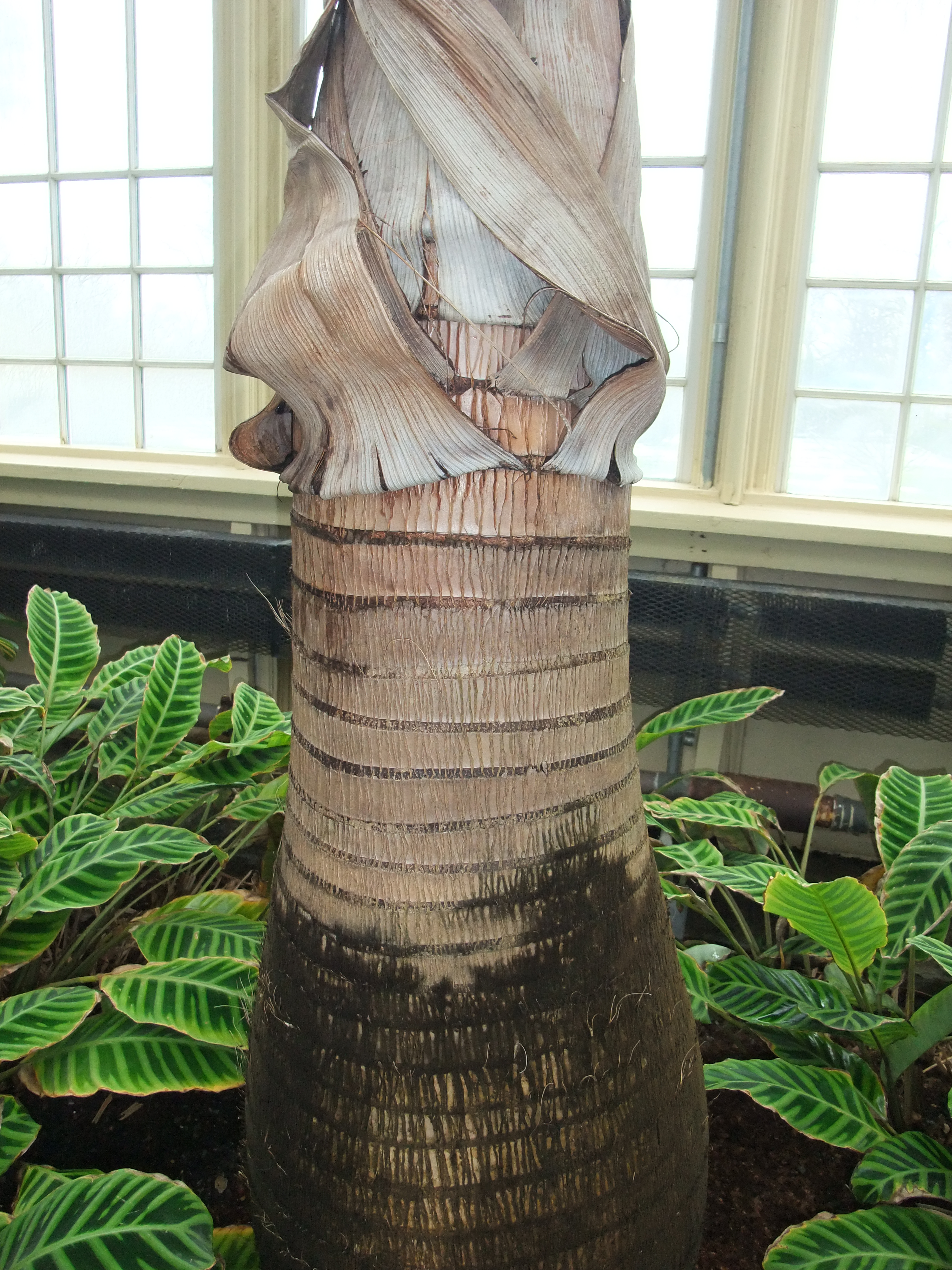 A photograph of the bark of Hyophorbe lagenicaulis.